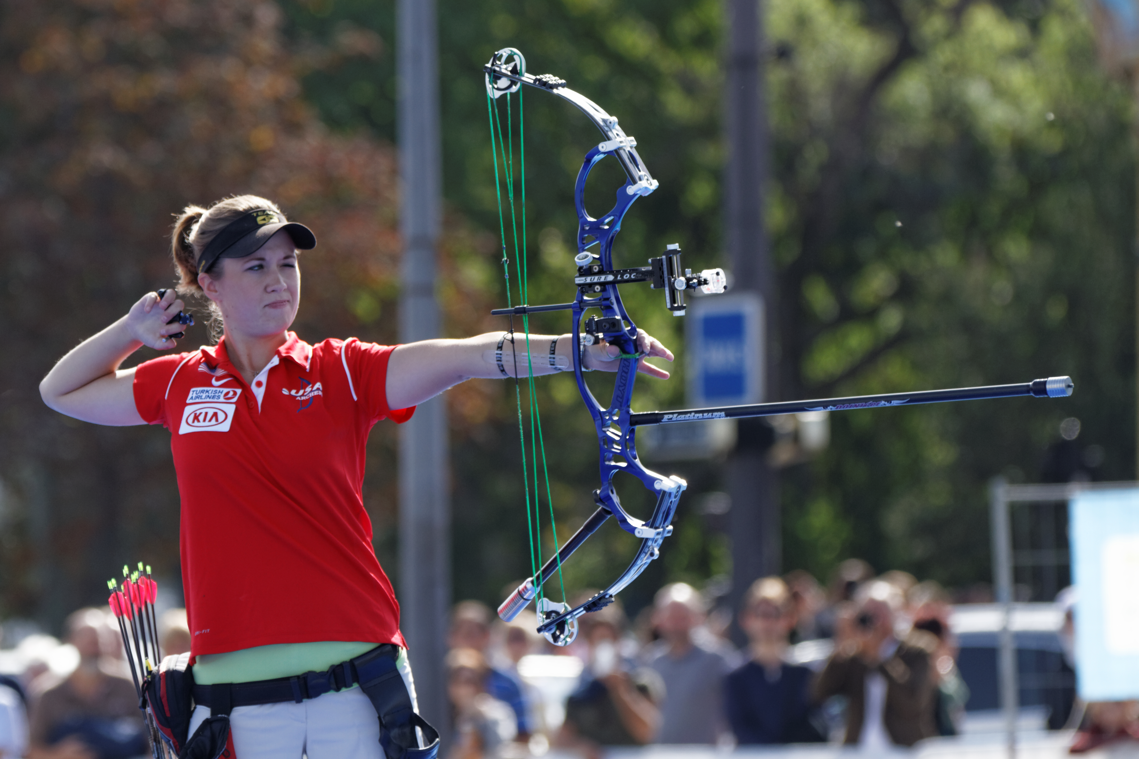 2013 FITA Archery World Cup, Paris, France. Women's individual compound semifinal: Seok Ji-Hyun vs Erika Jones.